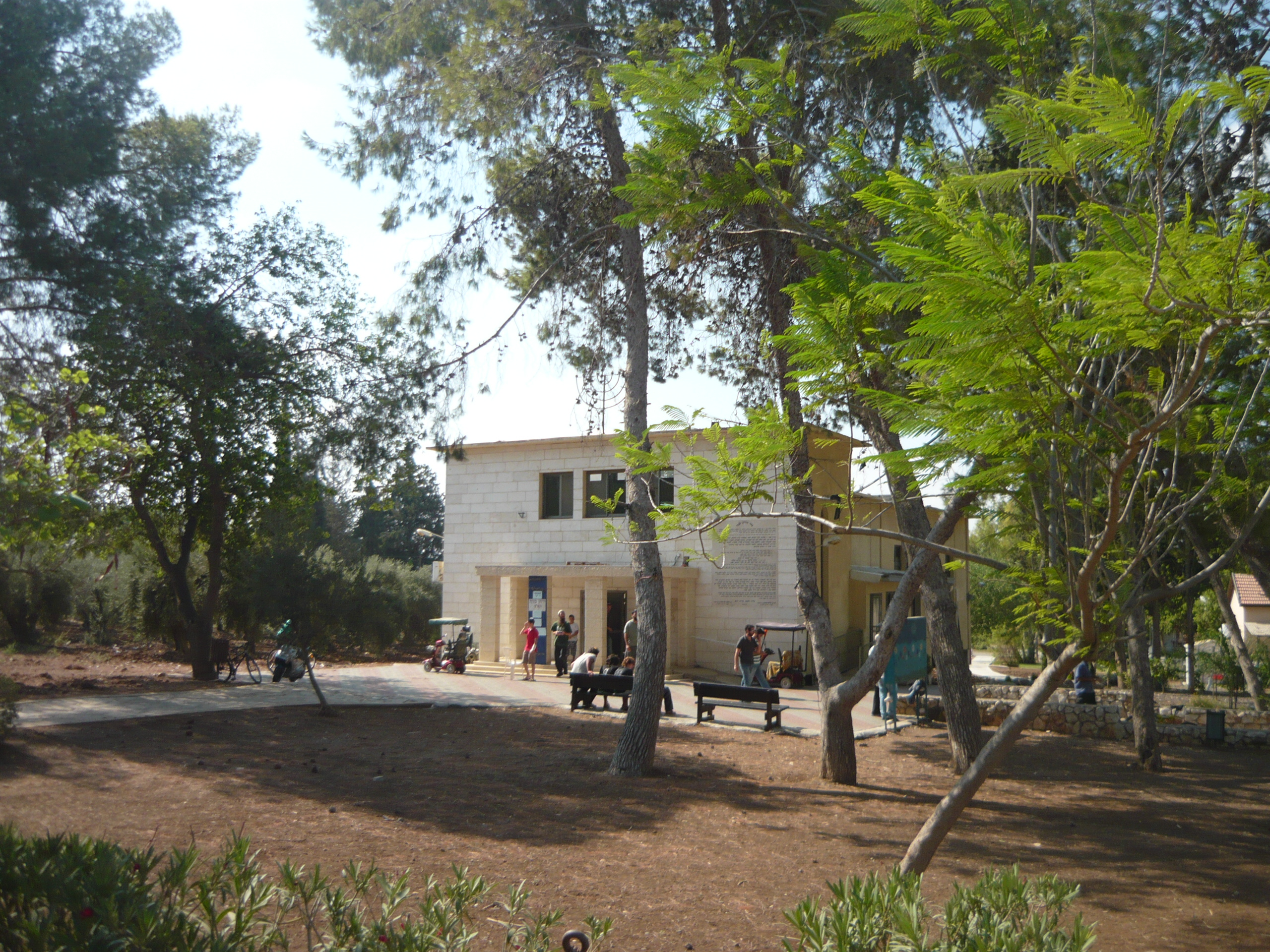 synagogue in hazorim בית הכנסת במושב הזורעים